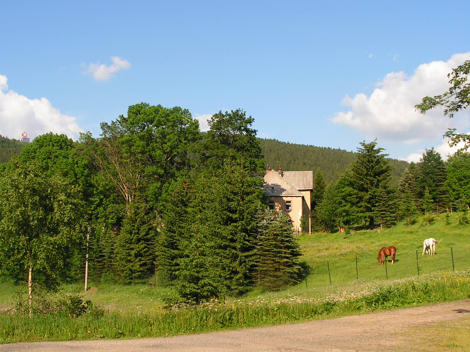 old forestry office Wildenthal, Germany